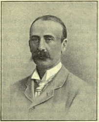 A picture of Frederick Stokes, first captain of the England rugby union team, and second president of the Rugby Football Union.